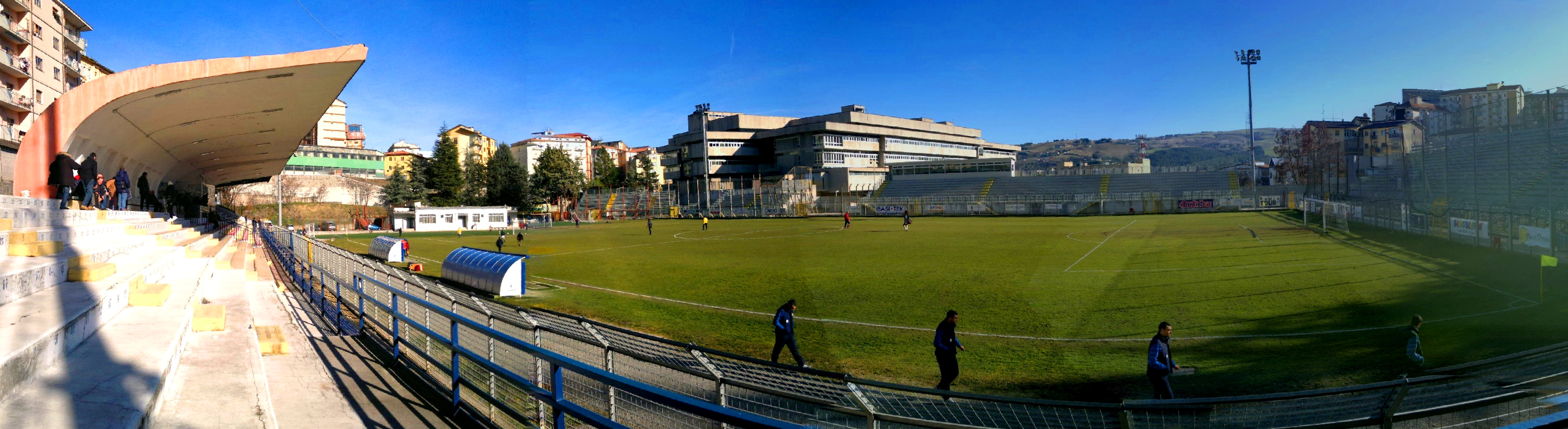 Overview of the Stadium "Alfredo Viviani" in Potenza